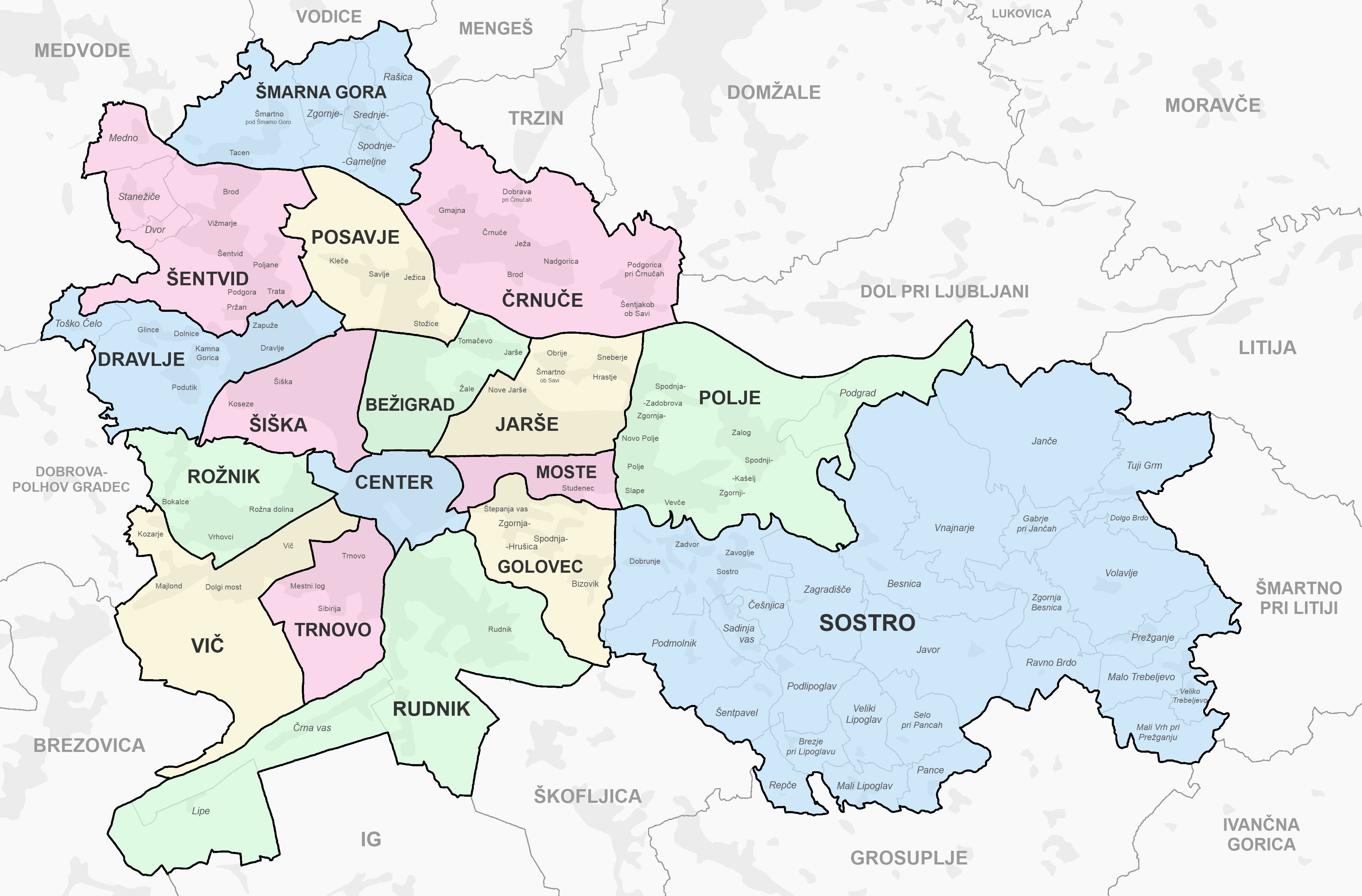 Districts of Ljubljana